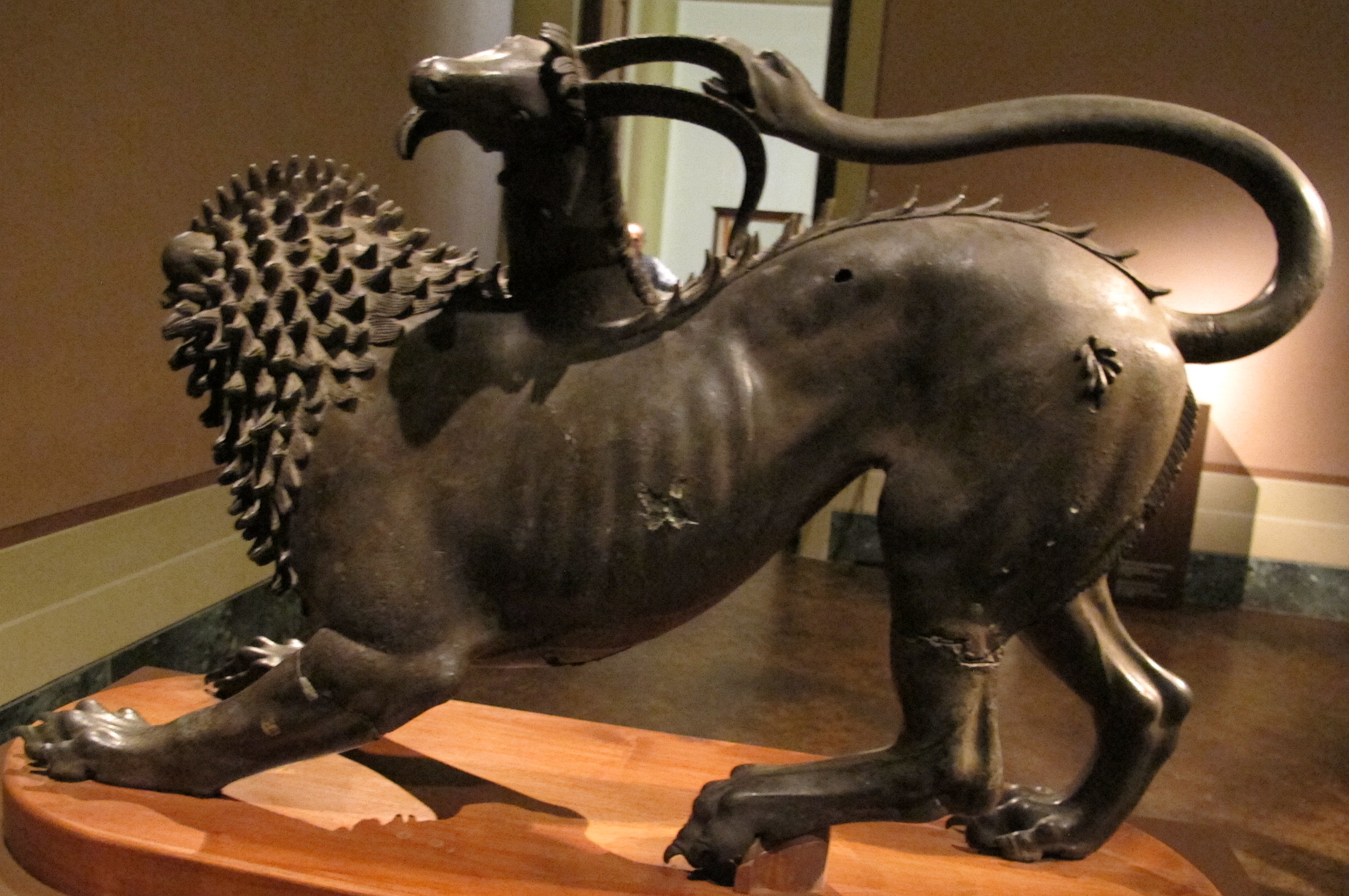 Etruscan bronze statue depicting the legendary monster. It was originally part of a group with Bellerophon and Pegasus. On the right leg is engraved the dedicatory inscription to Tinia.